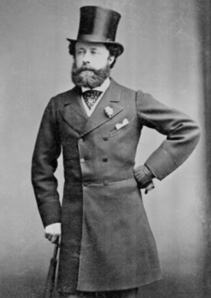 Lord Otho Fitzgerald, owner of Oakley Court, Windsor